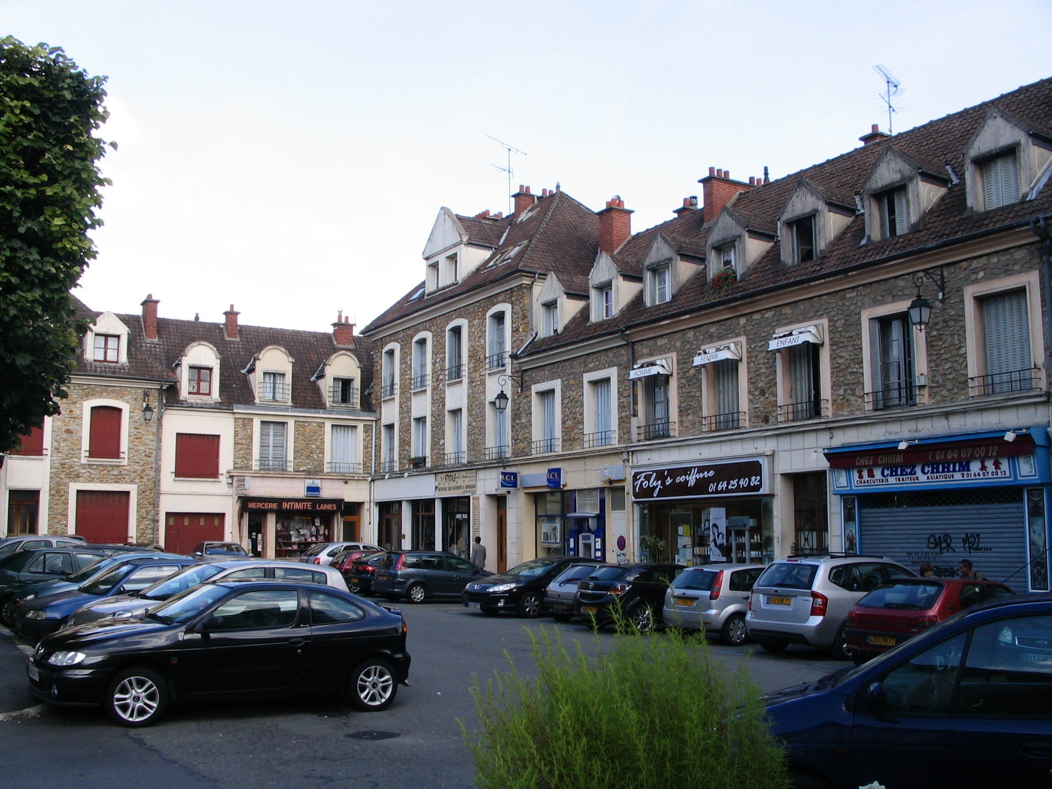 Paris Street, in central Tournan-en-Brie, Seine-et-Marne, France.